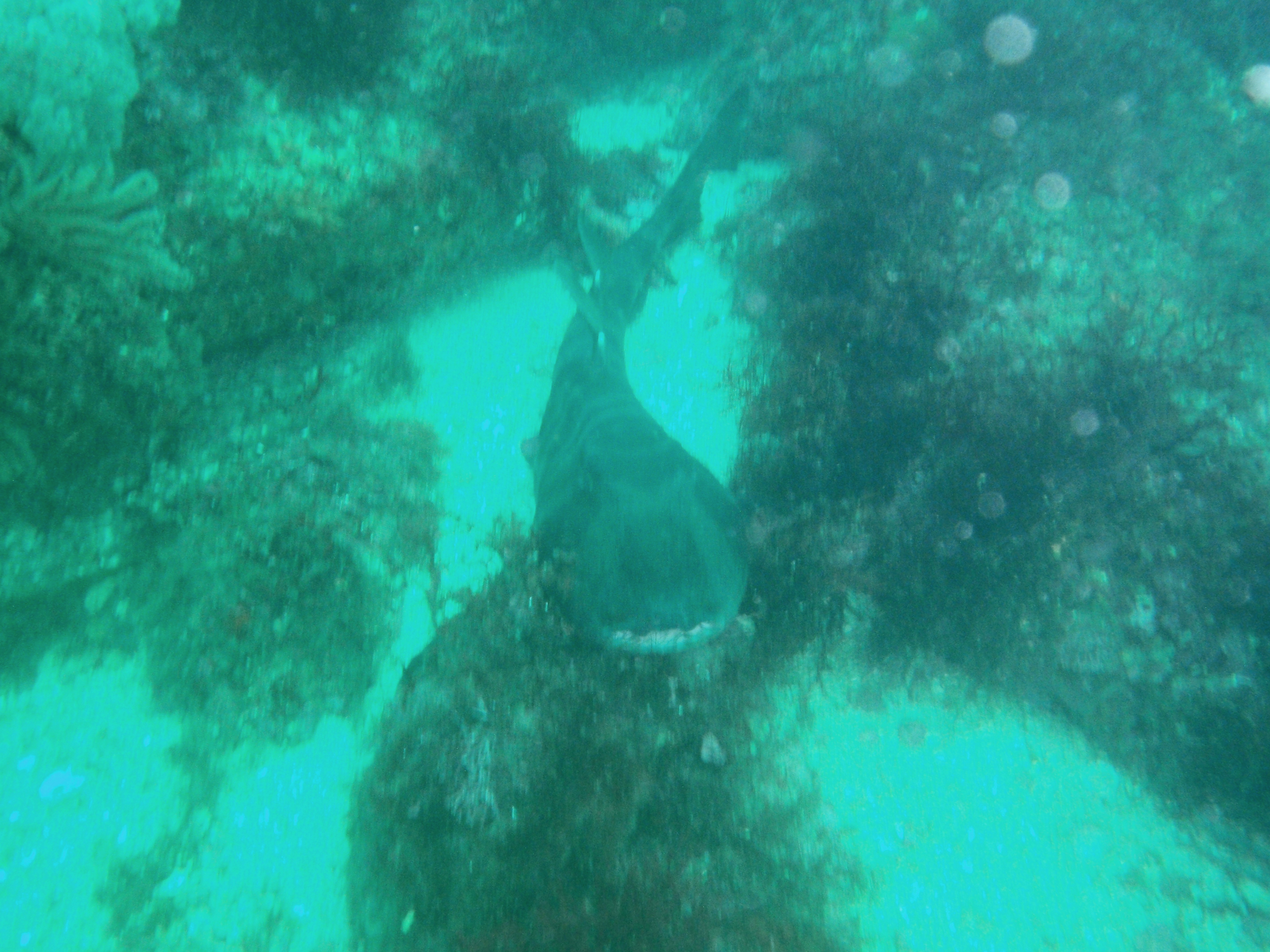 Japanese bullhead shark (Heterodontus japonicus) off Kawana, Japan